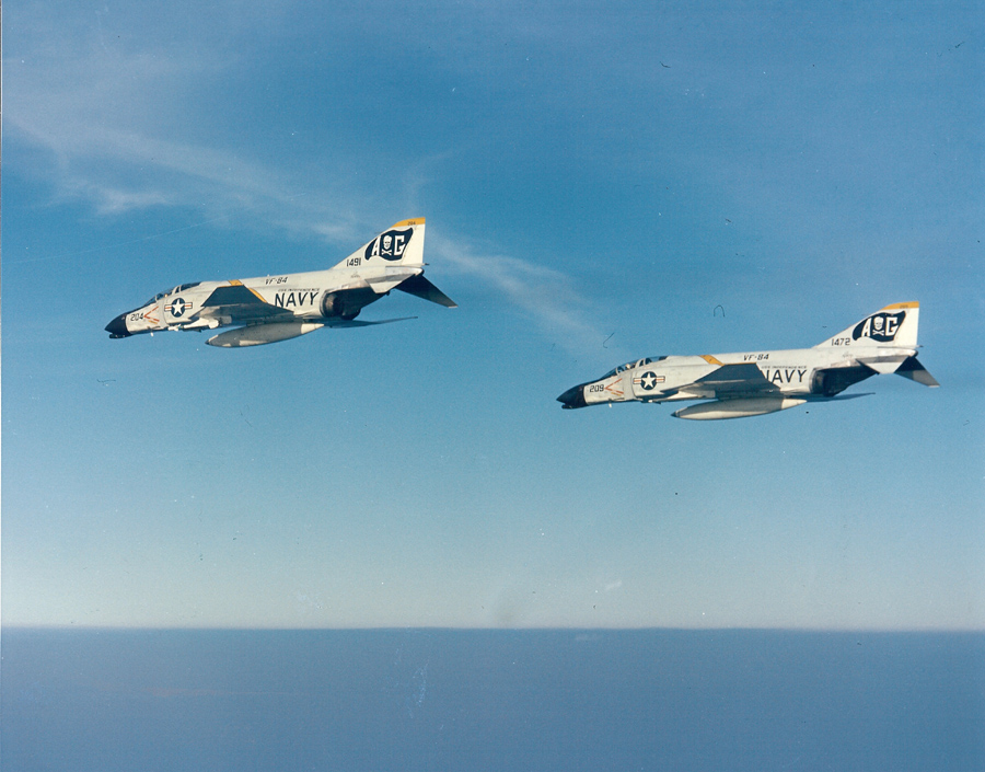 Two McDonnell F-4B Phantom II (BuNos 151472, 151491) of fighter squadron VF-84 Jolly Rogers in late 1964. VF-84 was assigned to Attack Carrier Air Wing Seven (CVW-7) aboard the aircraft carrier USS Independence (CVA-62).